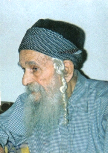 Silversmith, Yosef Saleh, wearing traditional Jewish habit (sudarium)